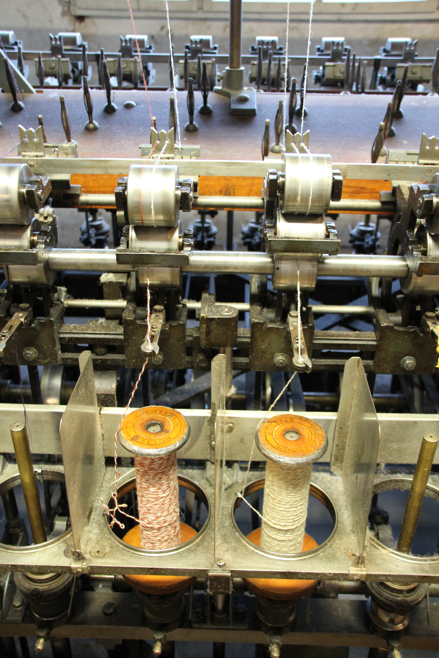 Image of bobbin winder (!!No bobbin winder but a twisting machine!!)) at the Sjøllingstad Wool Factory (Sjøllingstad Uldvarefabrik), near Mandal (Norway)